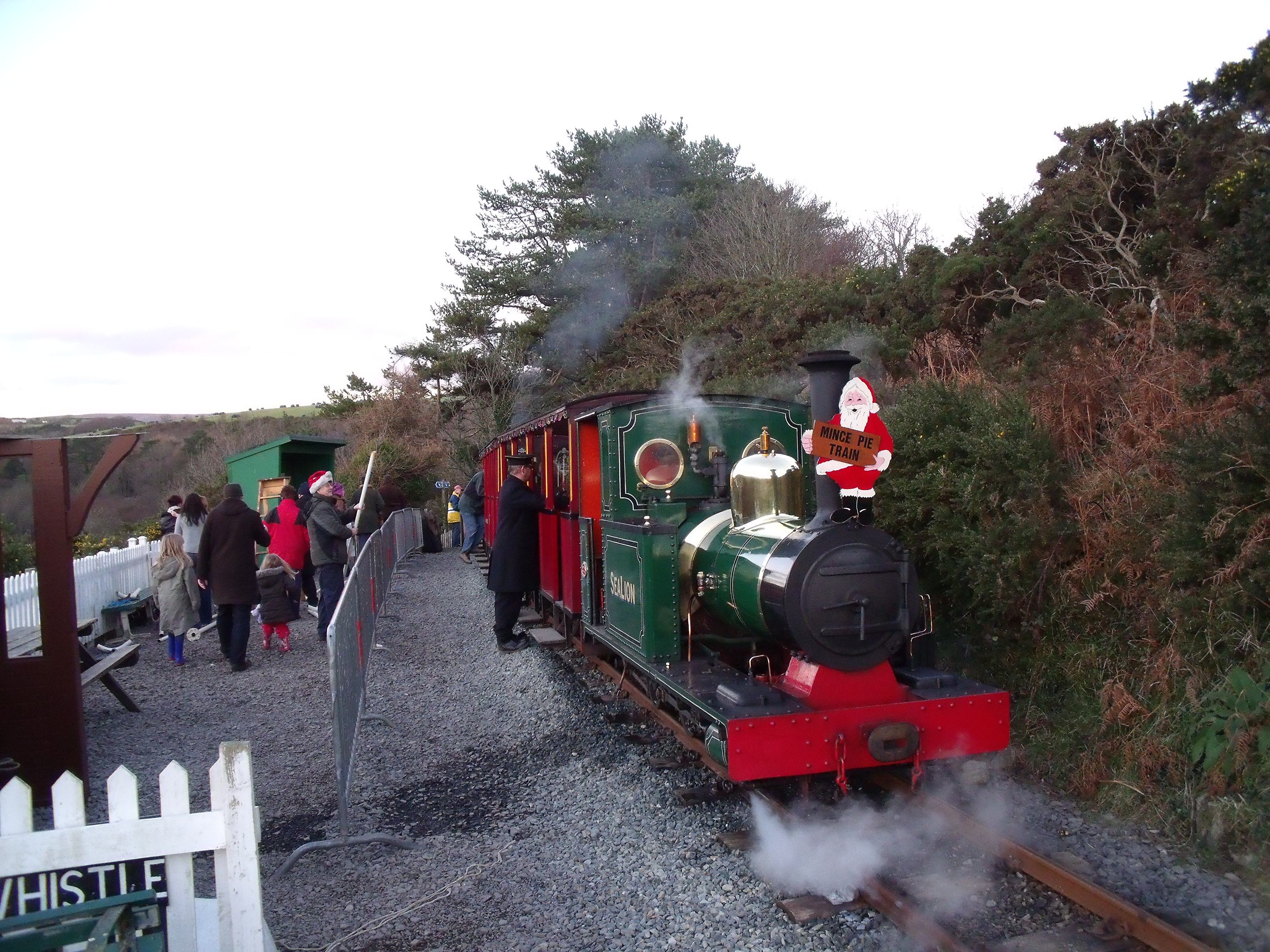 The busy scene at Lime Kiln Halt on the Groudle Glen Railway on the occasion of the annual Mince Pie Specials, Boxing Day 2008.